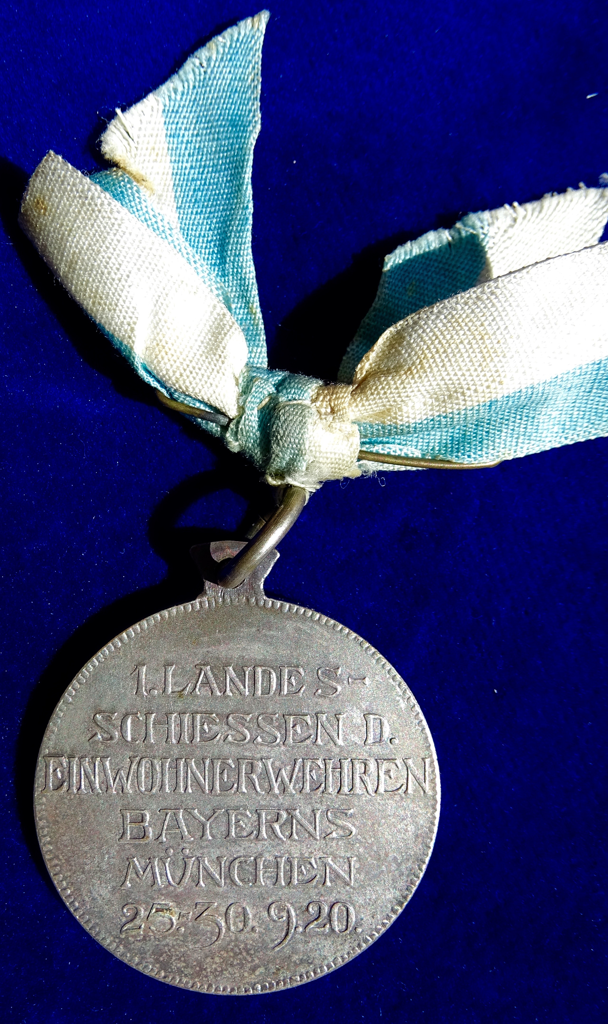 Silvered base metal d. = 34 mm. A rare item! After WW1 Vigilante Groups were formed in Bavaria in 1919. In June 1921 they had to be dissolved again because of Allied pressure, as being in breach of the Treaty of Versailles. Radiant Madonna with Child, around: "PATRONA BAVARIAE"/ 6 lines: "1. LANDESSCHIESSEN D. EINWOHNERWEHREN BAYERN MÜNCHEN 25. - 30.9.20." Medallist: C. P. Condition: Medallion: Almost UNCIRCULATED. Original ribbon: VERY FINE.